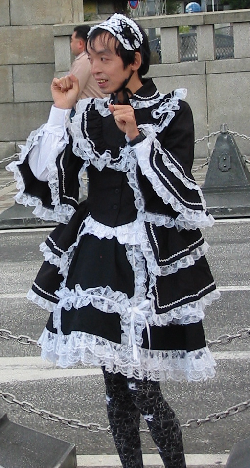 Crossplayer